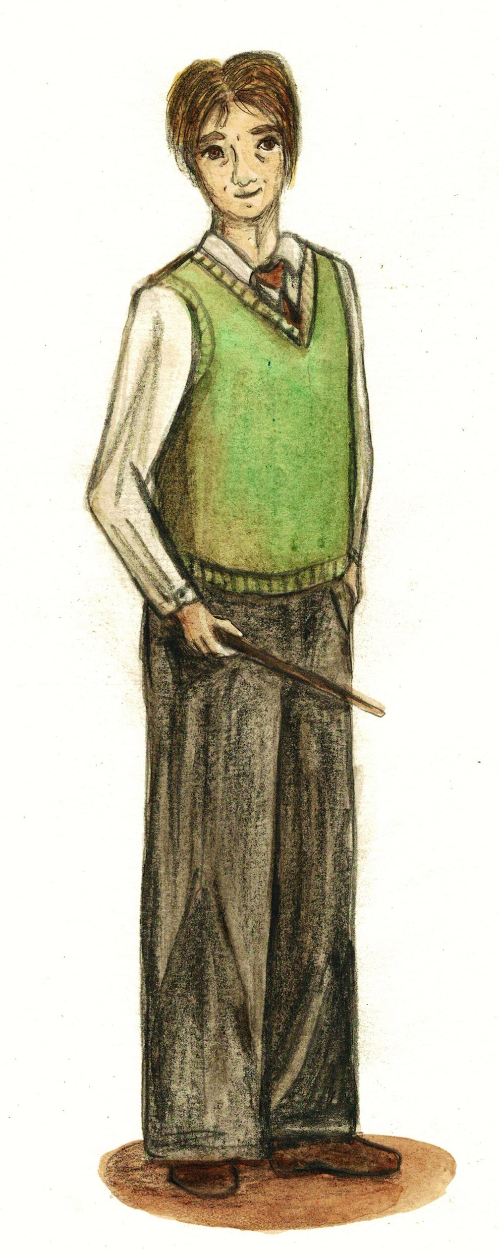 Fan art representing Remus Lupin, character from the Harry Potter saga, made with charcoal and watercolour by Mademoiselle Ortie aka E. Tihange, This drawing is not affected by any copyright infringement. See the discussion that previously decided on its conservation.